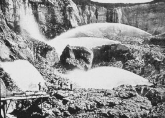 monitors breaking down sediment for mining.